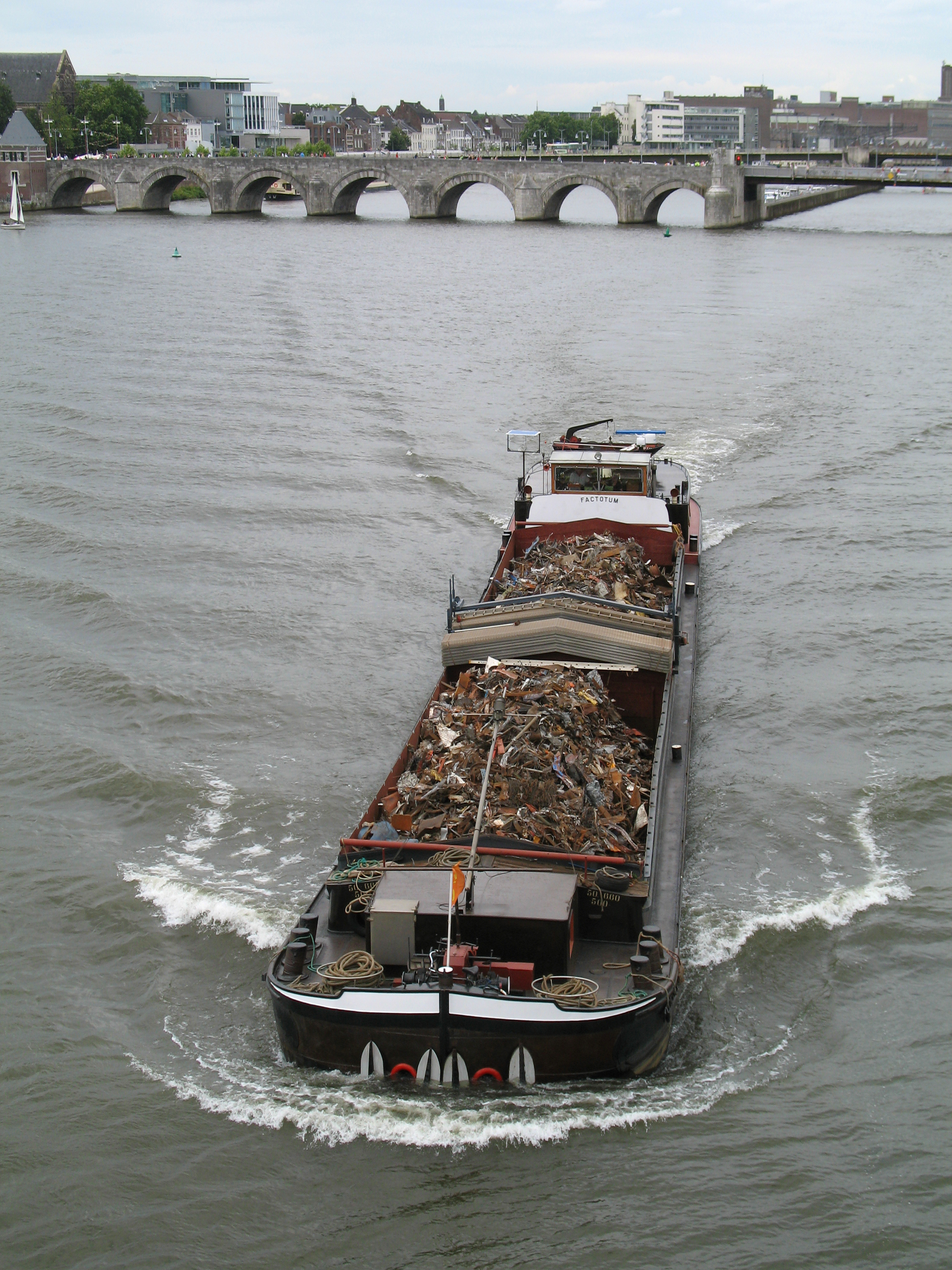 The Dutch barge Factotum transporting scrap-steel on the Meuse river at Maastricht (the Netherlands) towards the Belgian border. In the background: the Sint-Servaas bridge.